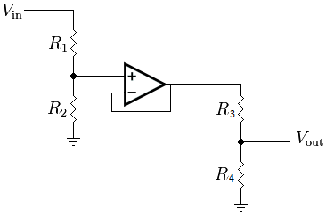 Serie of voltage divider with buffer (simmetrical voltage division).